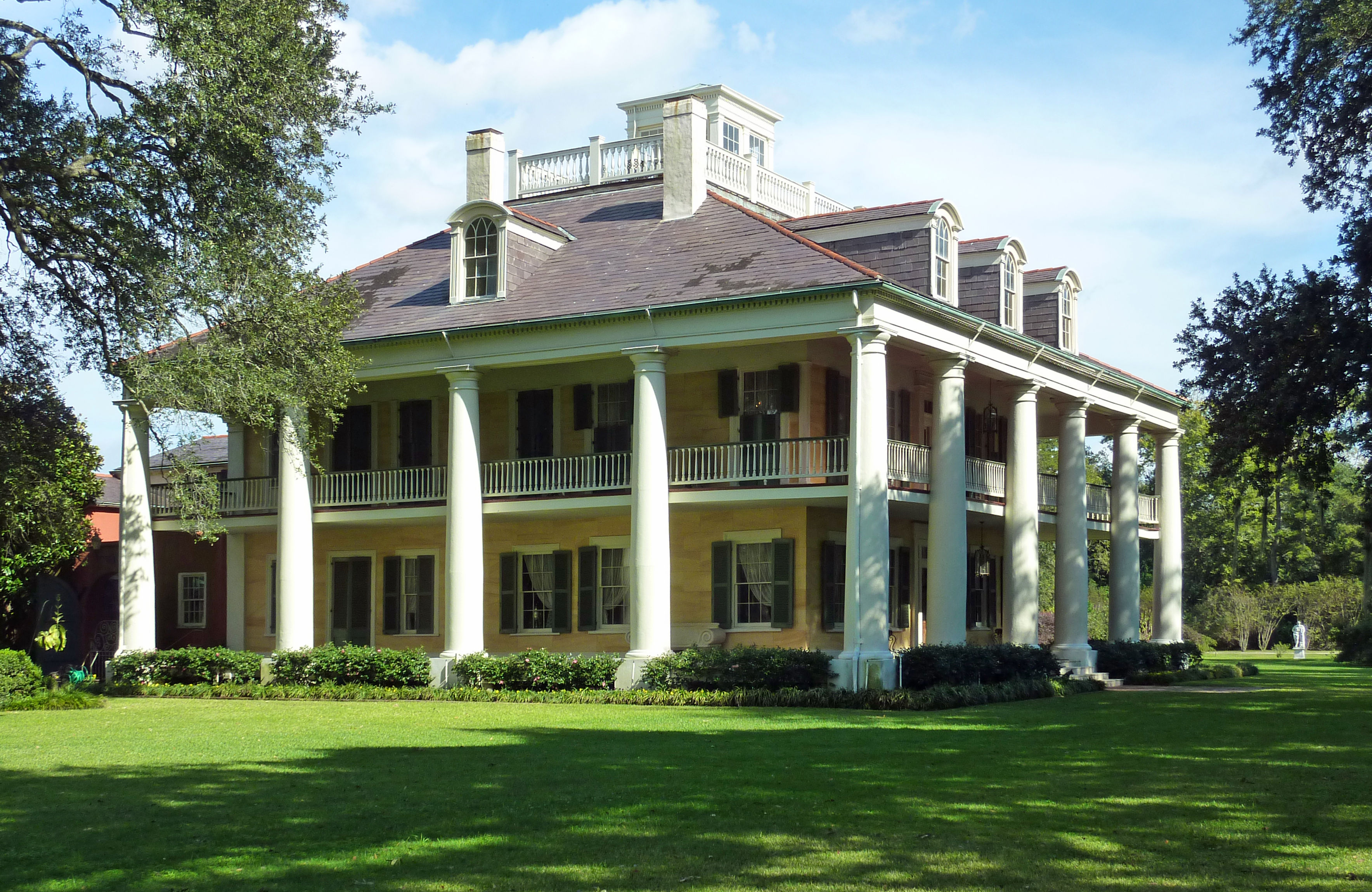 I had a chance to visit Houmas House Plantation and Garden near Darrow, LA in November 2010 - what a cool place. Houmas House is a Greek Revivalist mansion that was once a major sugarcane grower - now it a major tourist destination and worth a visit - just walking around the garden is worth it, especially for the garden gnomes and lovely water lily pond.